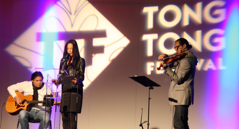 Author Marion Bloem reading from her own work, musically supported on guitar and violin @ Tong Tong Festival 2013.